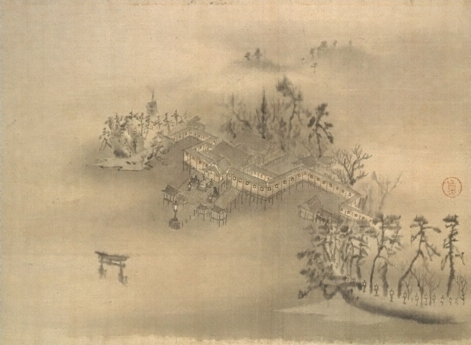 Eight Views of Miyajima, by Nagasawa Rosetsu, Bunkacho, kept at Tokyo National Museum, Japan